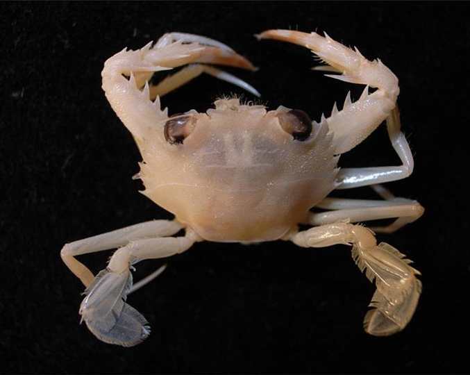 Charybdis miles